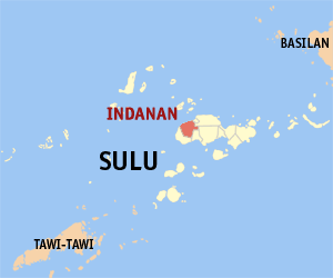 Map of the Sulu showing the location of Indanan